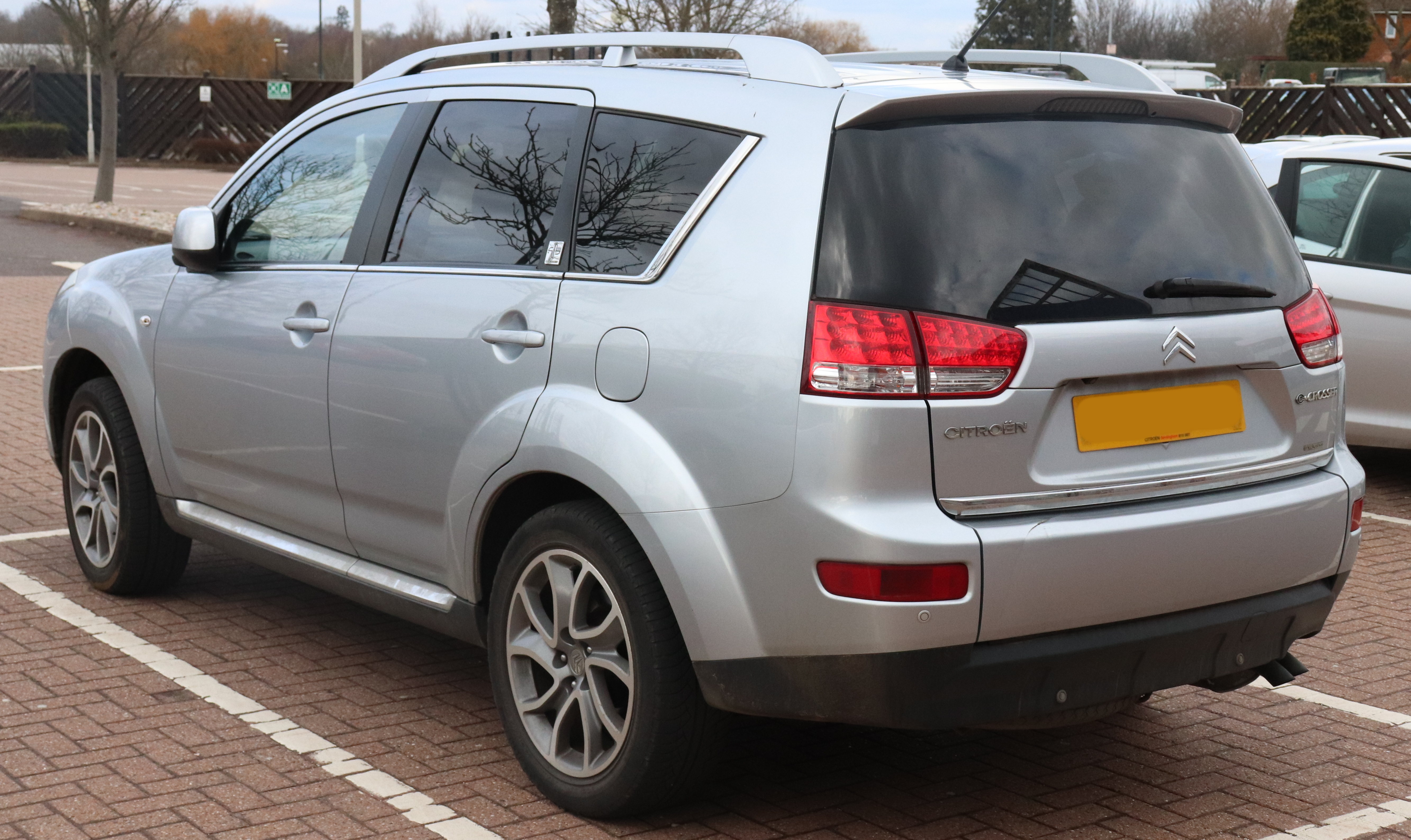 2009 Citroen C-Crosser Exclusive HDi 2.2 Rear Taken in Leamington Spa